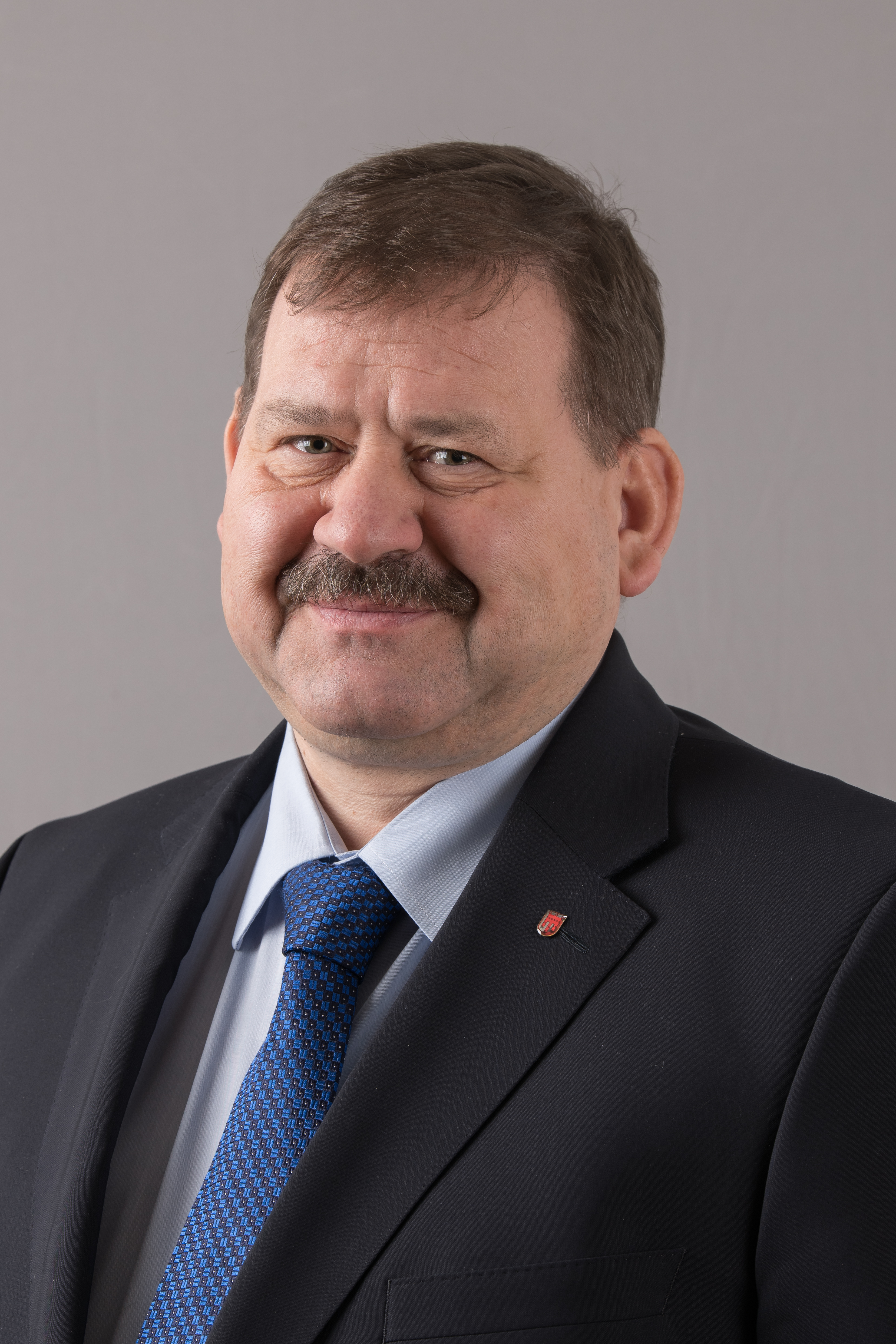 13/12/17, Bregenz/Vorarlberg, Landtagsprojekt Vorarlberg. Picture shows Hubert Kinz (FPÖ), delegate to the Vorarlberger Landtag since 2014